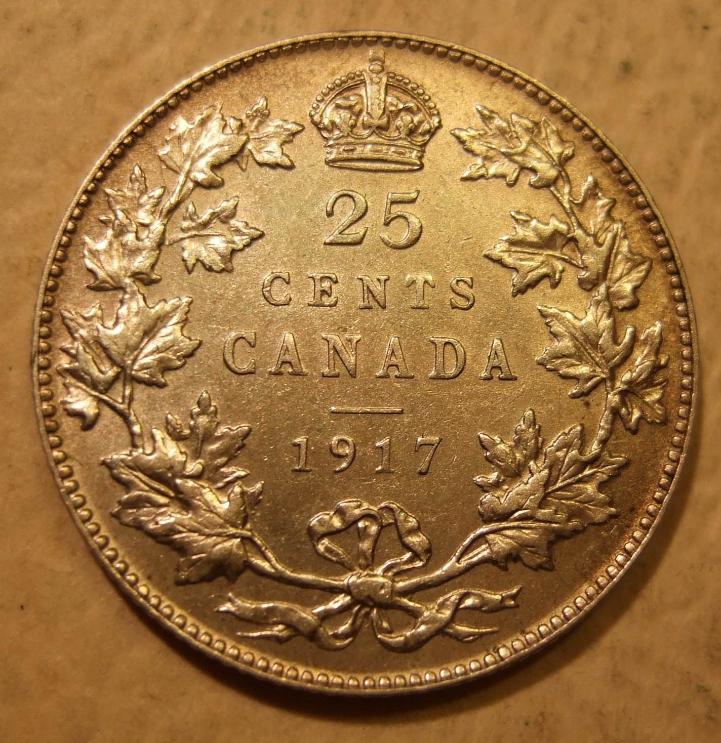 Fine example of a 1917 Canadian quarter.